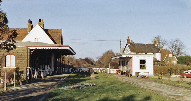 Barcombe Mills Station (remains), Near to Barcombe, East Sussex, Great Britain. See my picture of the intact station TQ4214 : Barcombe Mills Station . The former station is now a restaurant and shop.